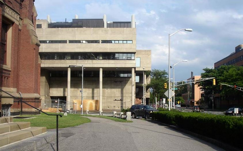 GSD Gund Hall at 48 Quincy Street, Harvard University, as seen from outside Harvard Memorial Hall